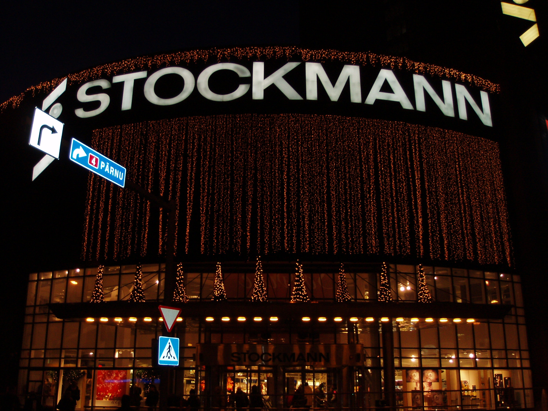 Stockmann in Tallinn 29 December 2006